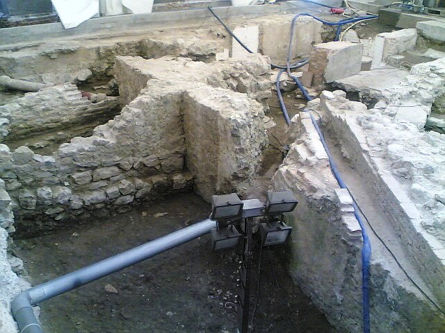 Archaeological excavation in the Plaza Porticada of Santander (Cantabria, Spain).